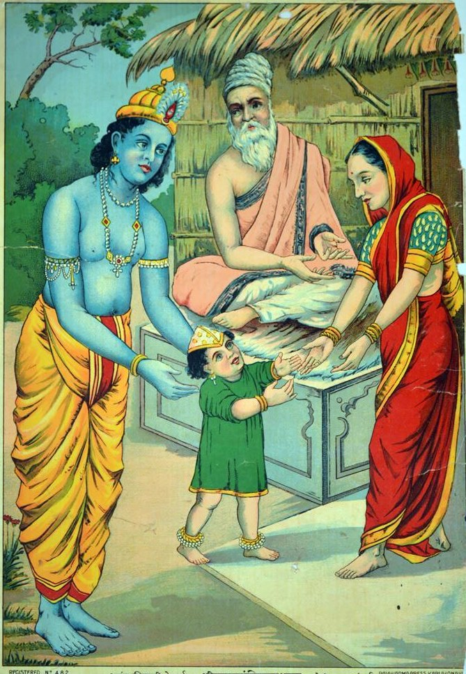 Shree Krishna Sandipan Dakshina Early Lithograph by Ravi Varma Press 14 x 10 inches Code No: 10521 Price on Request 0 View to Scale Overview Specifications Contact Us Early Lithograph by Ravi Varma Press Shree Krishna Sandipan Dakshina 14 x 10 inches | 35.5 x 25.4 cms